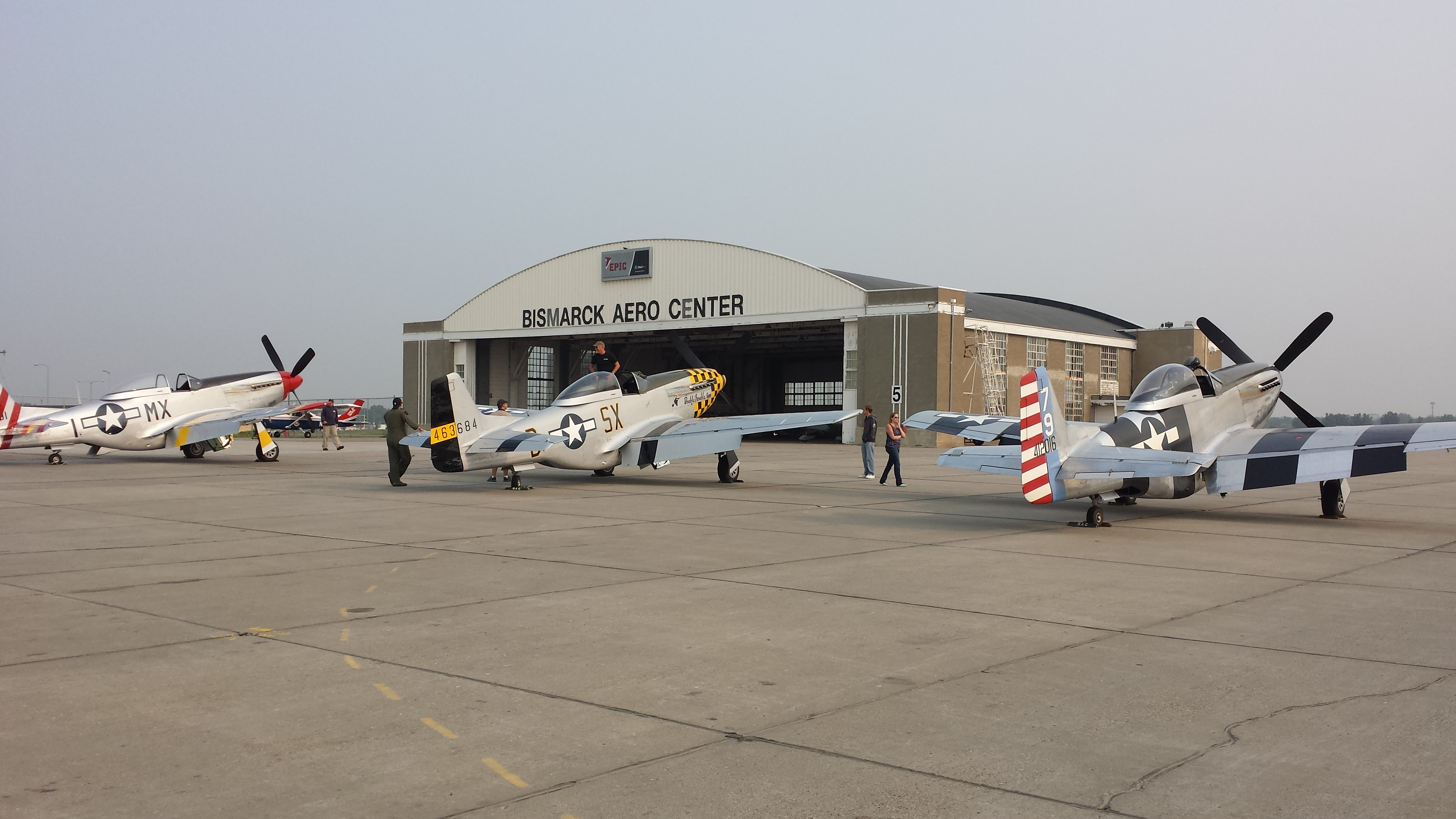 P51's arrive at Bismarck